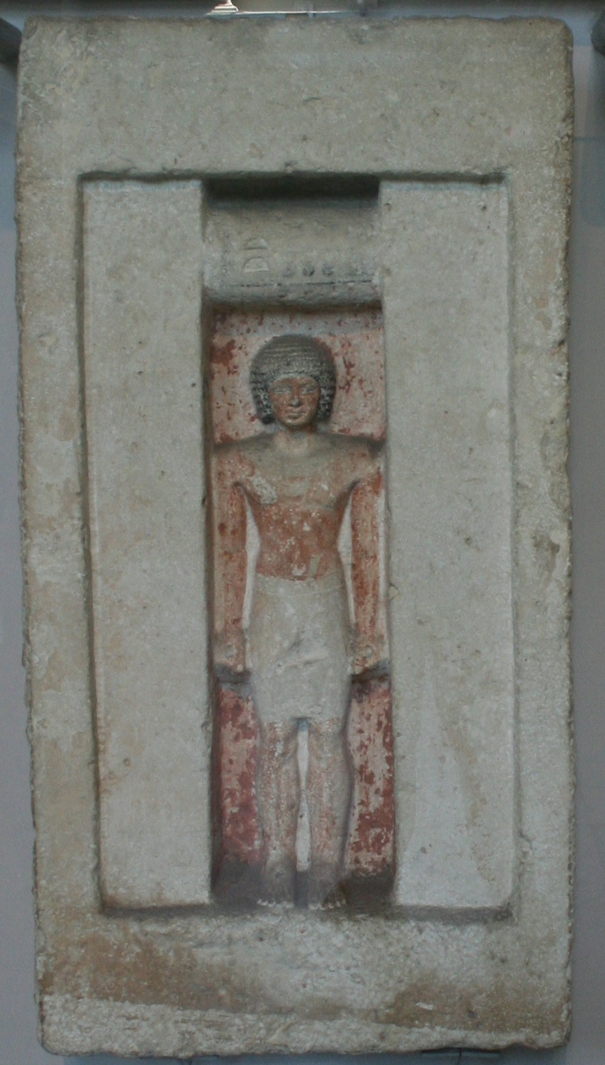 British Museum, London